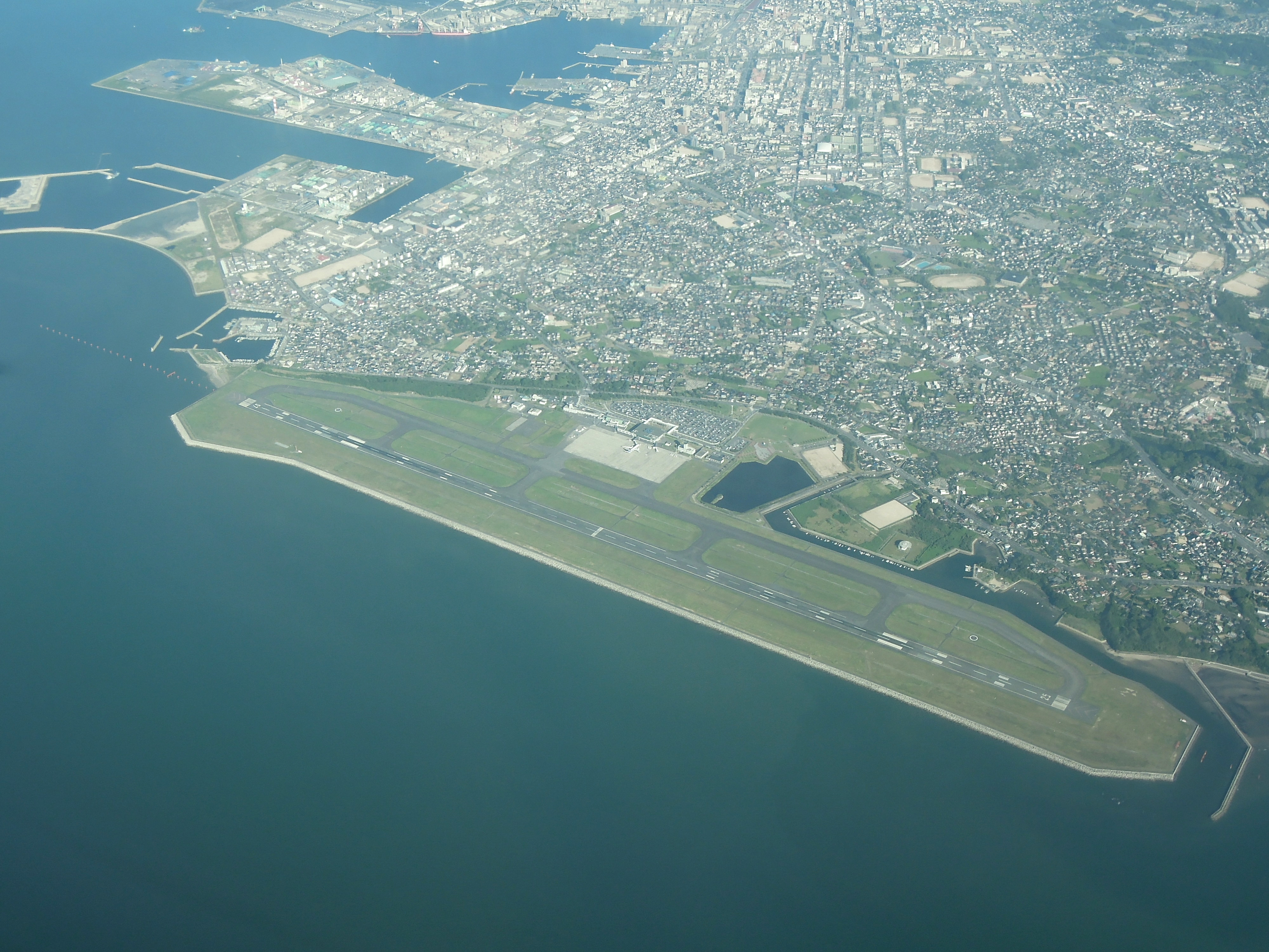 Yamaguchi-Ube Airport